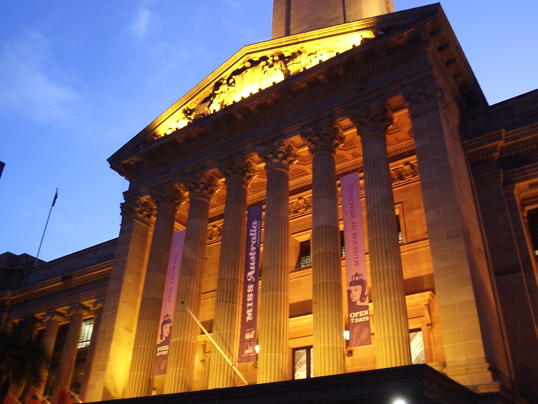 This image was captured by me on 15th Dec 06. It features Brisbane City Hall's facade lit up at night.